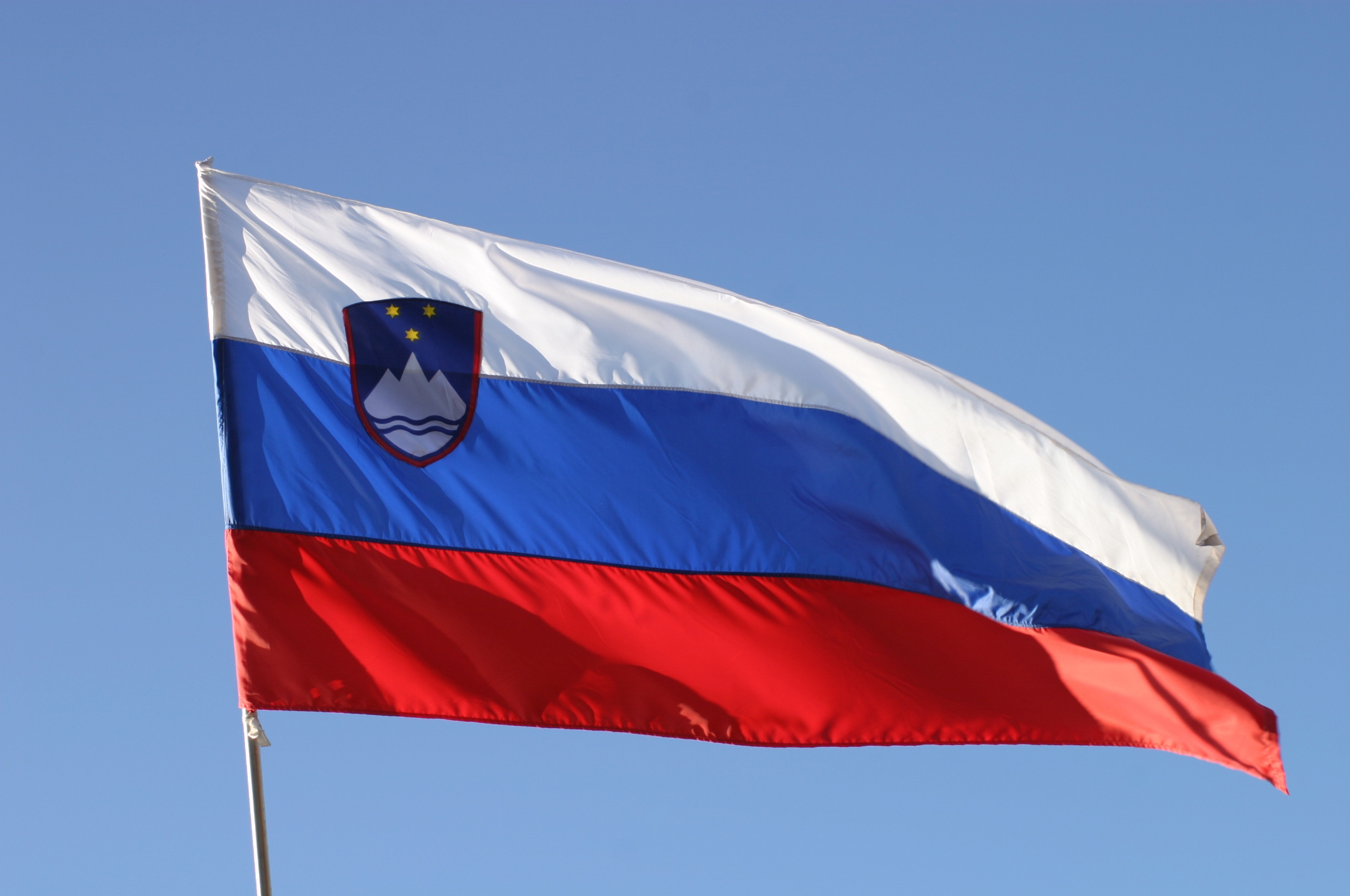 Edited flag of Slovenia.